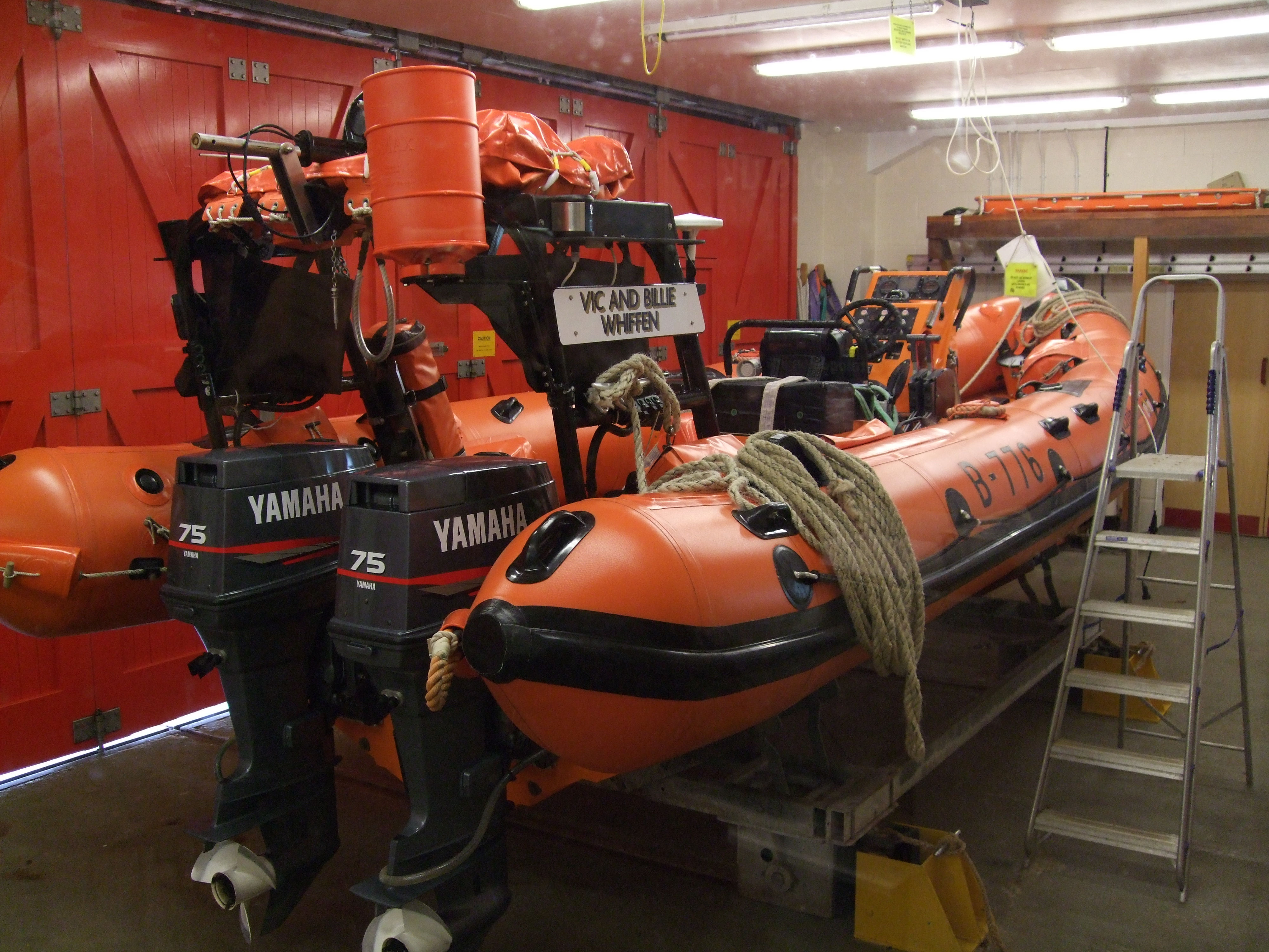 New station B class lifeboat B776 Vic & Billie Whiffen was placed on service on 8 December 2001.